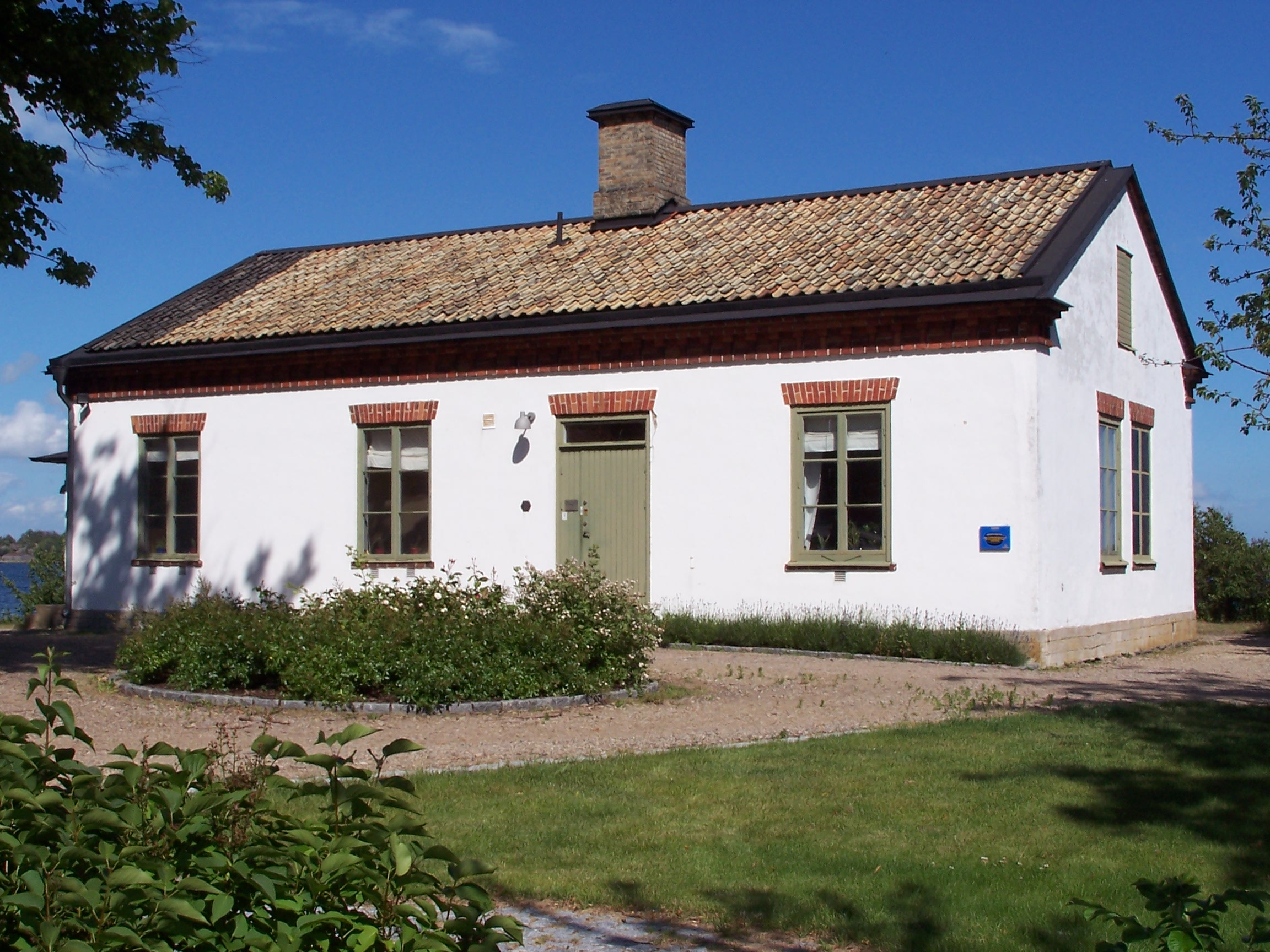 The cookhouse, Stumholmen, Karlskrona